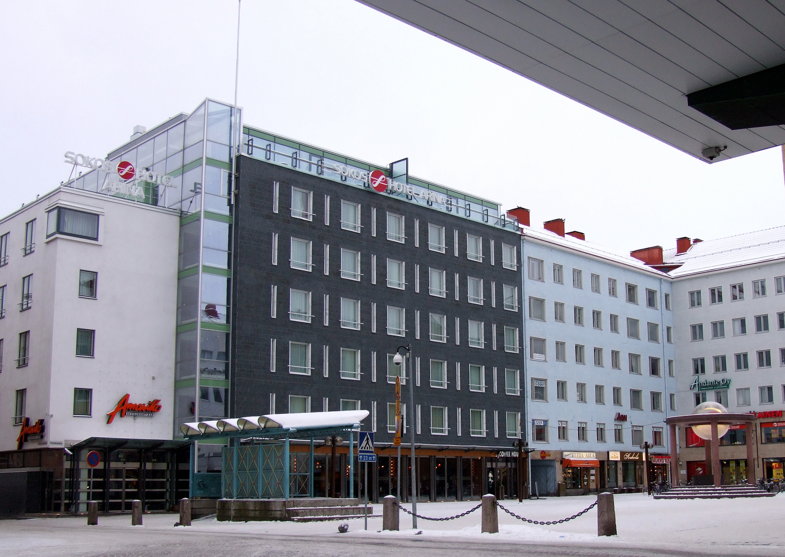 Oulu central square